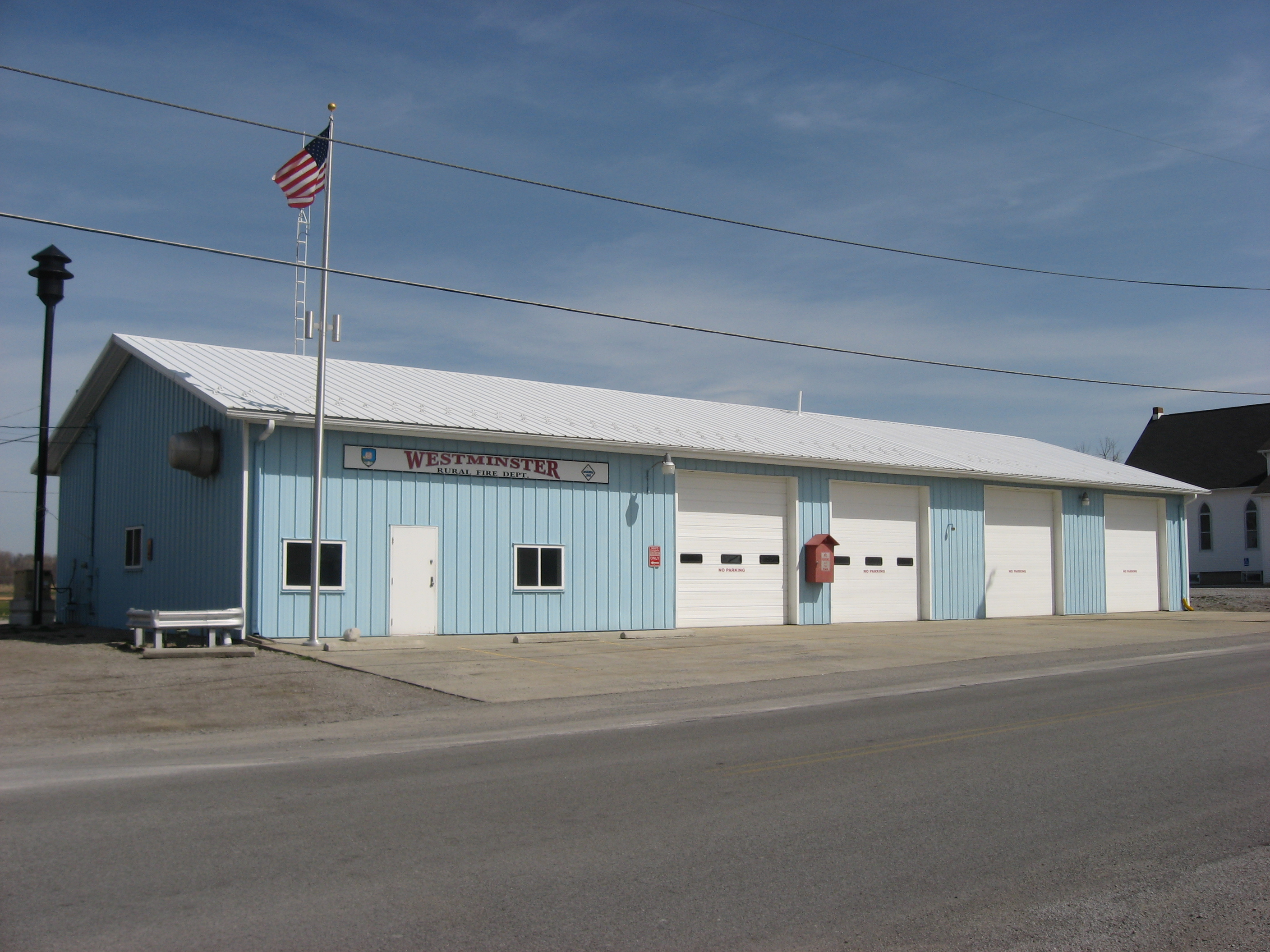 Front of the Westminster Rural Fire Department, located at 6825 Faulkner Road in Westminster, Ohio, United States. Department website.